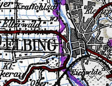 Elbląg - city map 1920.